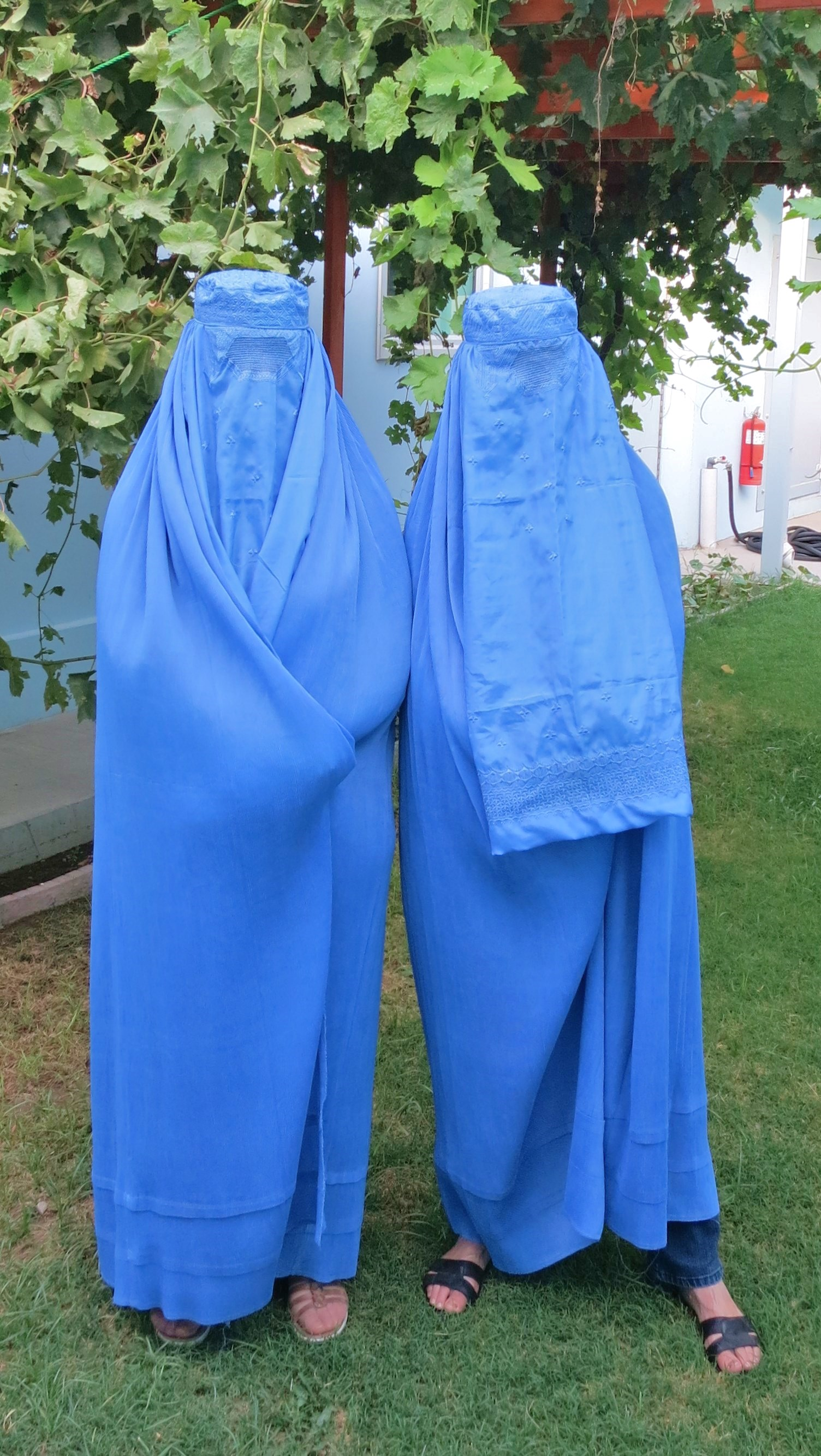 Two people waring burqa in Kabul, Afghanistan